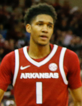 Photo by Chris Gillespie